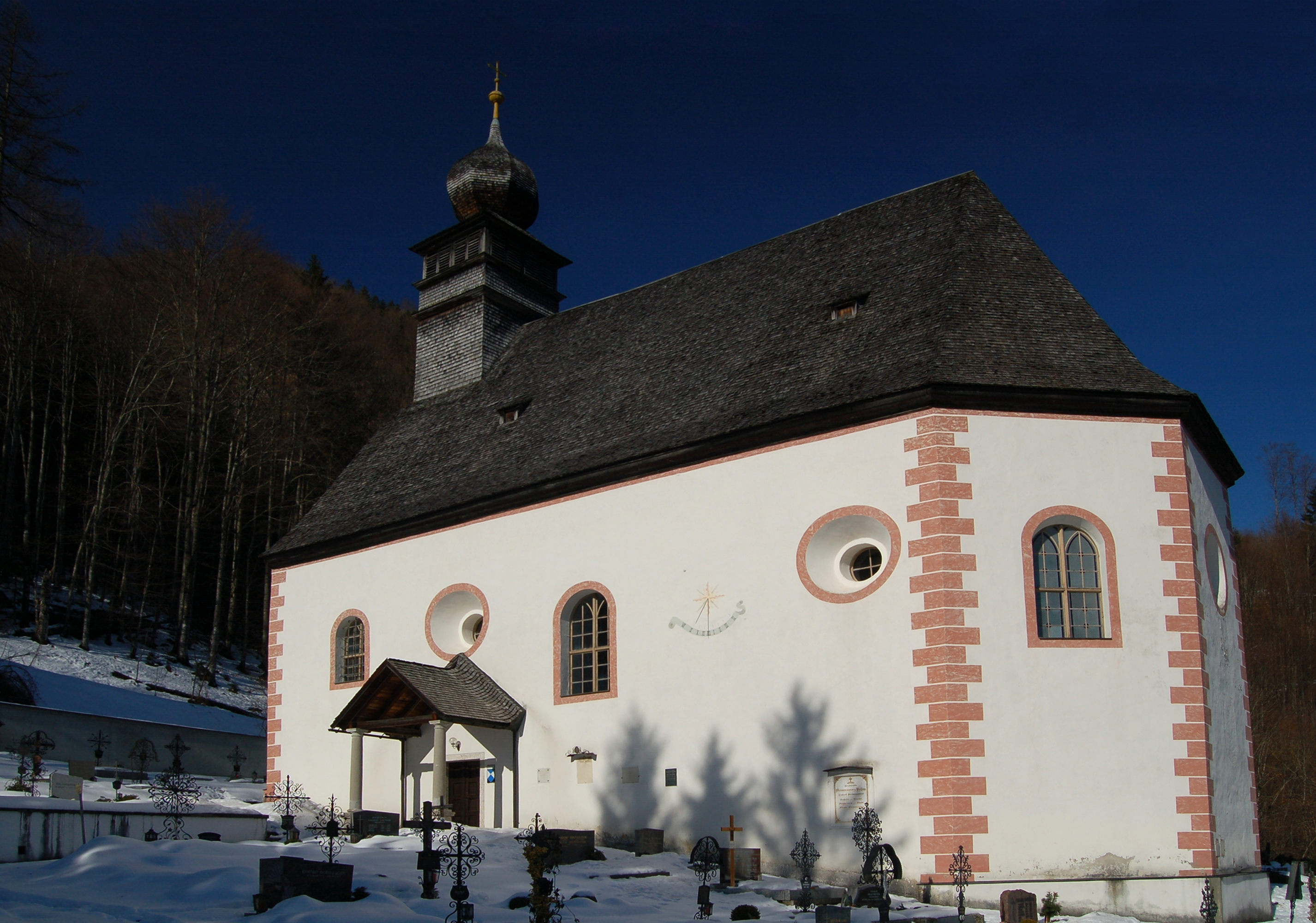 The mountain church Klaus, more precisely Saint John the Baptist church, in Klaus an der Pyhrnbahn, is protected as a cultural heritage monument. Furthermore, it is protected as a cultural property acc. to the Hague Convention.